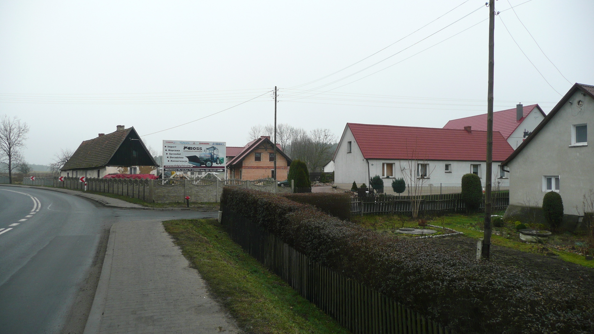 View on center of Mielochwice